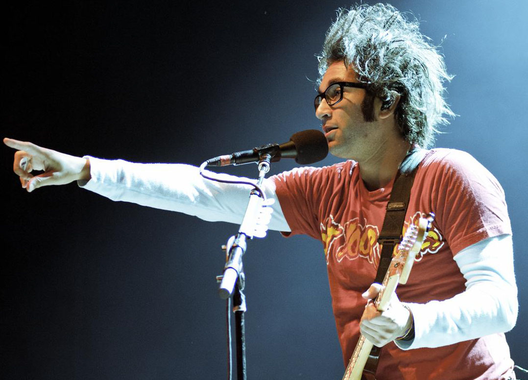 Justin Pierre of Motion City Soundtrack performing on October 26, 2010 in St. Louis, Missouri